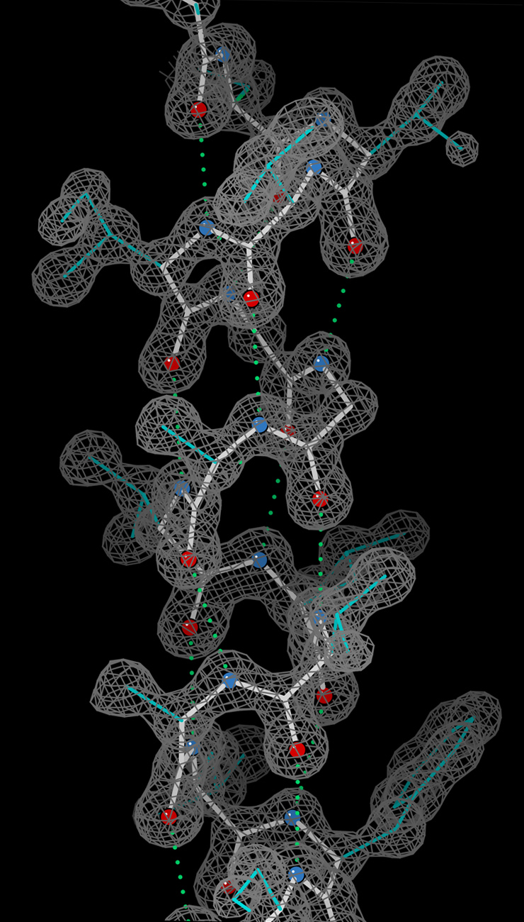 An alpha-helix, with stick-figures for the model shown within electron density for the crystal structure at ultra-high-resolution (0.91Å). The density contours are in gray, the helix backbone in white, sidechains in cyan, O atoms in red, N atoms in blue, and hydrogen bonds as green dotted lines. From PDB file 2NRL, residues 17-32.